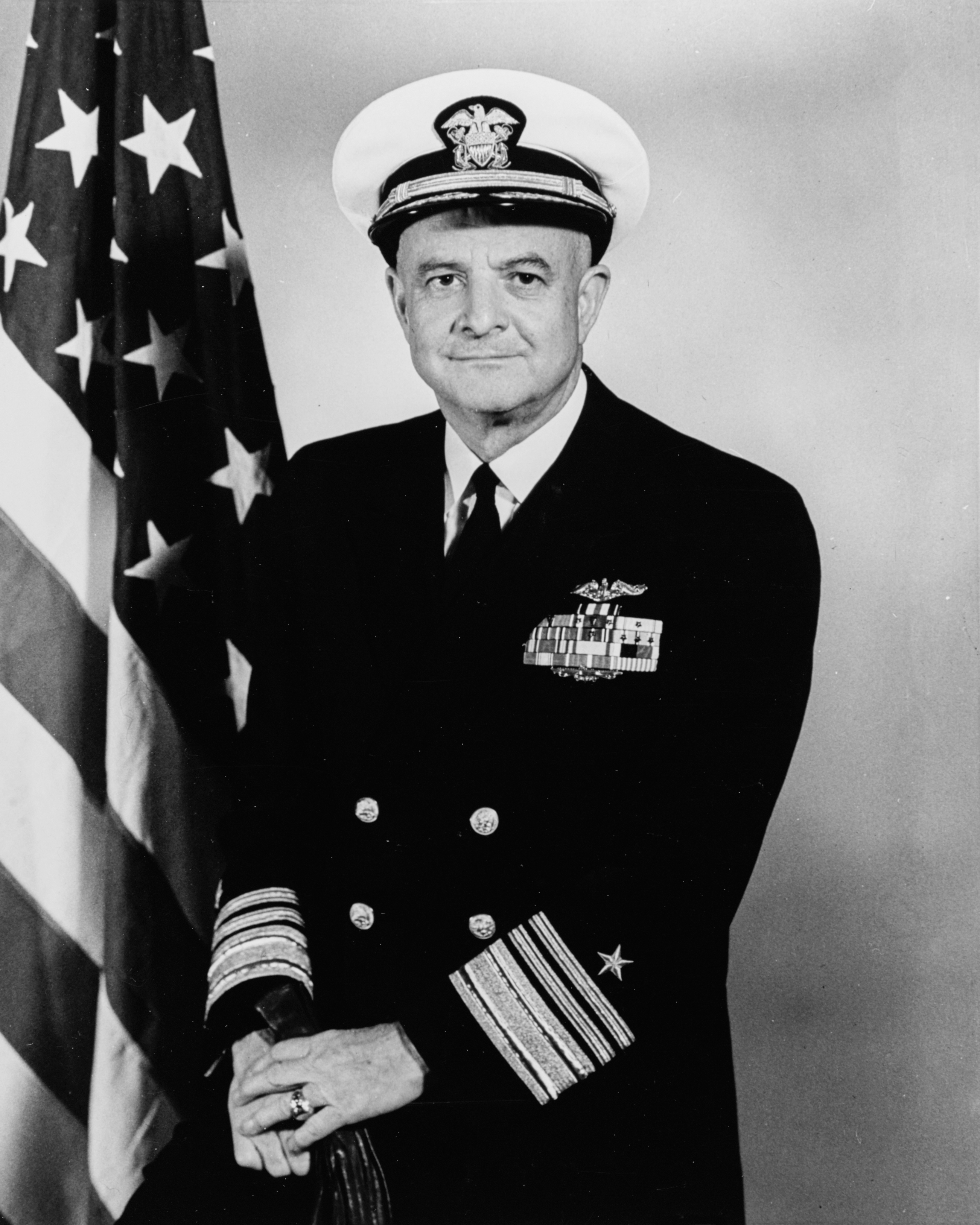 Admiral John S. McCain, Jr., modified from [1]. Official United States Navy photo, not eligible for copyright